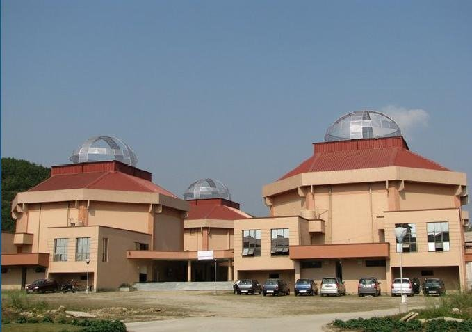 Lecture Theatre complex of IIT Guwahati